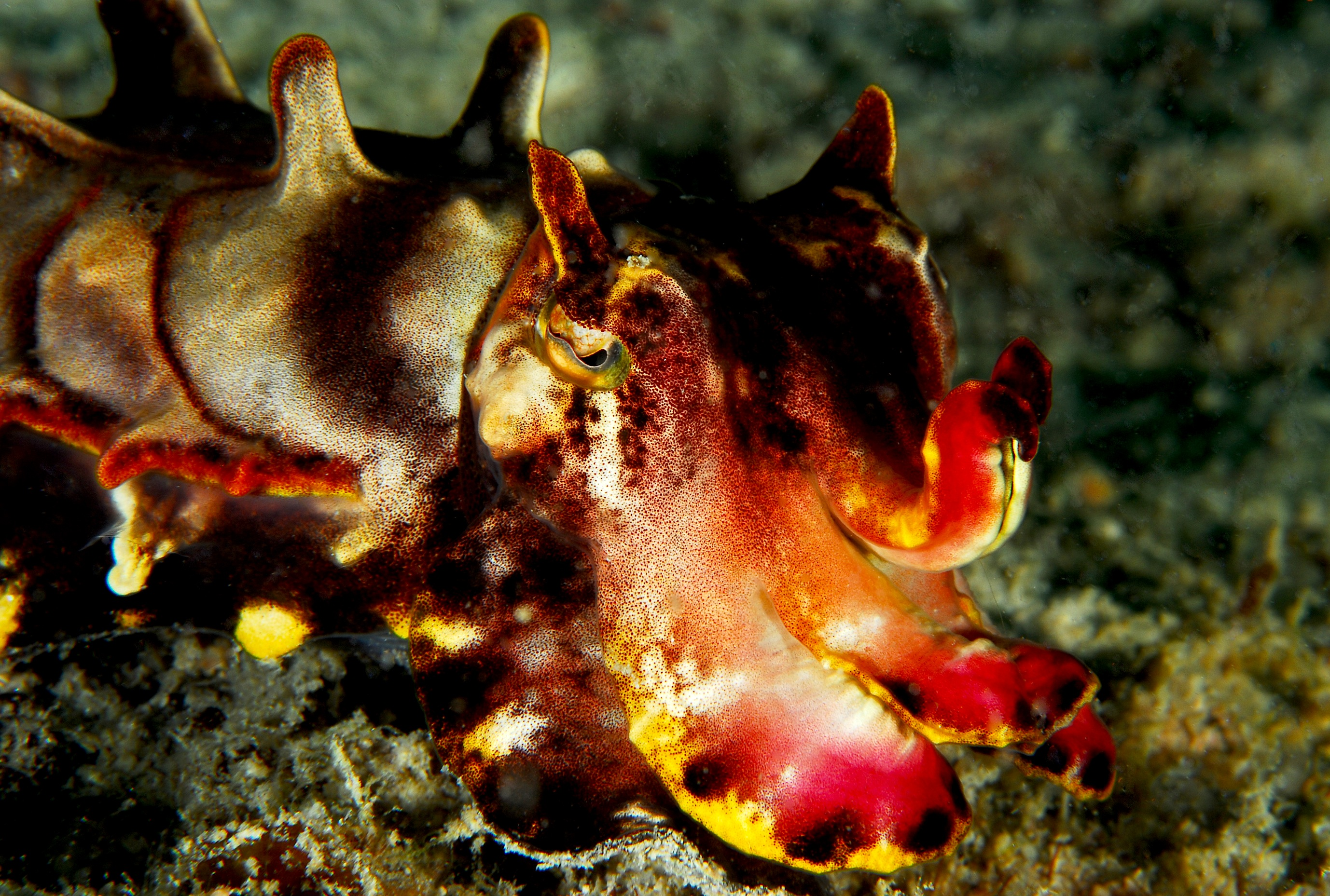 Flamboyant Cuttlefish are among the world's amazing and fanscinating creatures. Waving upon wave of bright yellow,white,chocolate brown and vermilion flashing neon-like on its stubby body. Hunt small shrimp in the daylight,changing its external appearance to that of a silt-covered stone before striking out. Extremely bright coloration is possible a warning. This species could actually have a poisonous bite like its more famous cousin--The blue ring octopus.